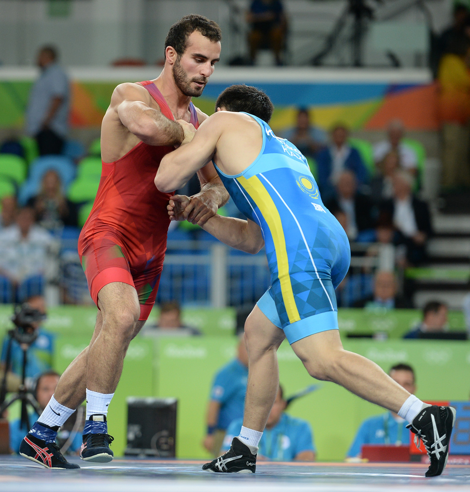 Wrestling at the 2016 Summer Olympics, Mursaliyev vs Kartikov